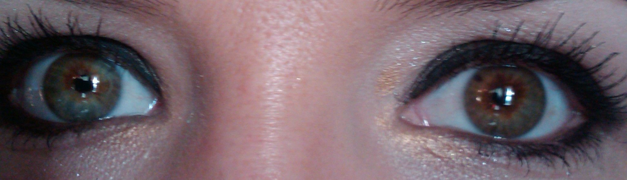 Heterochromia iridum and iridus